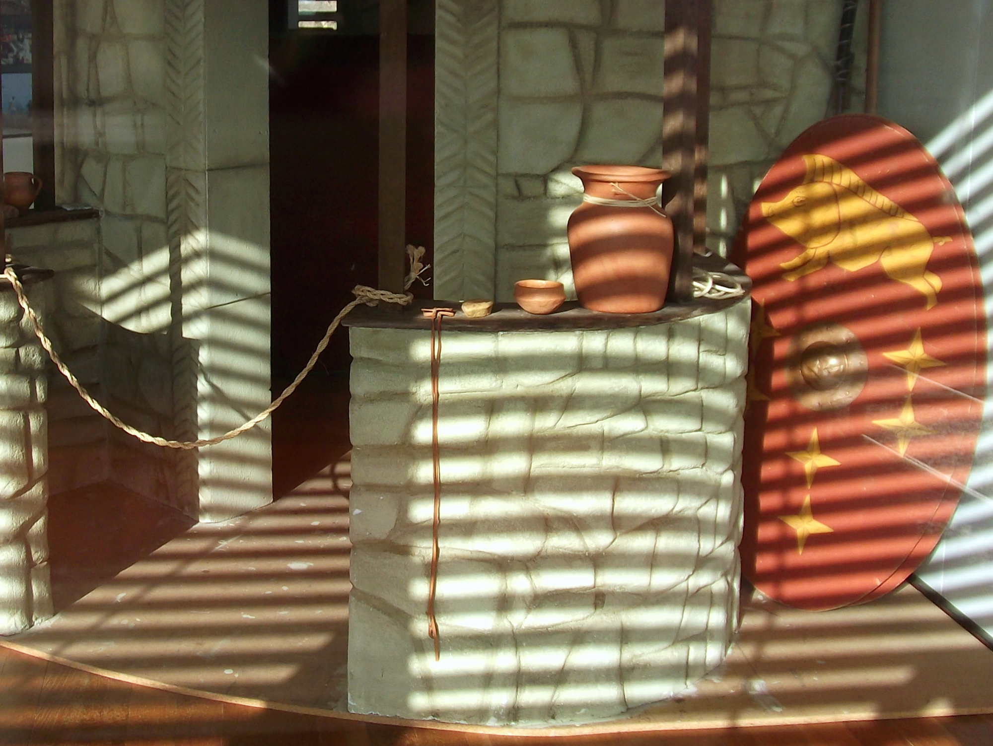 Cividade de Terroso Museum